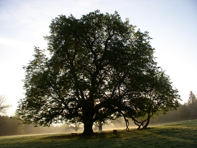 Tree in Dun na Rí Forest Park, near Kingscourt, Co. Cavan